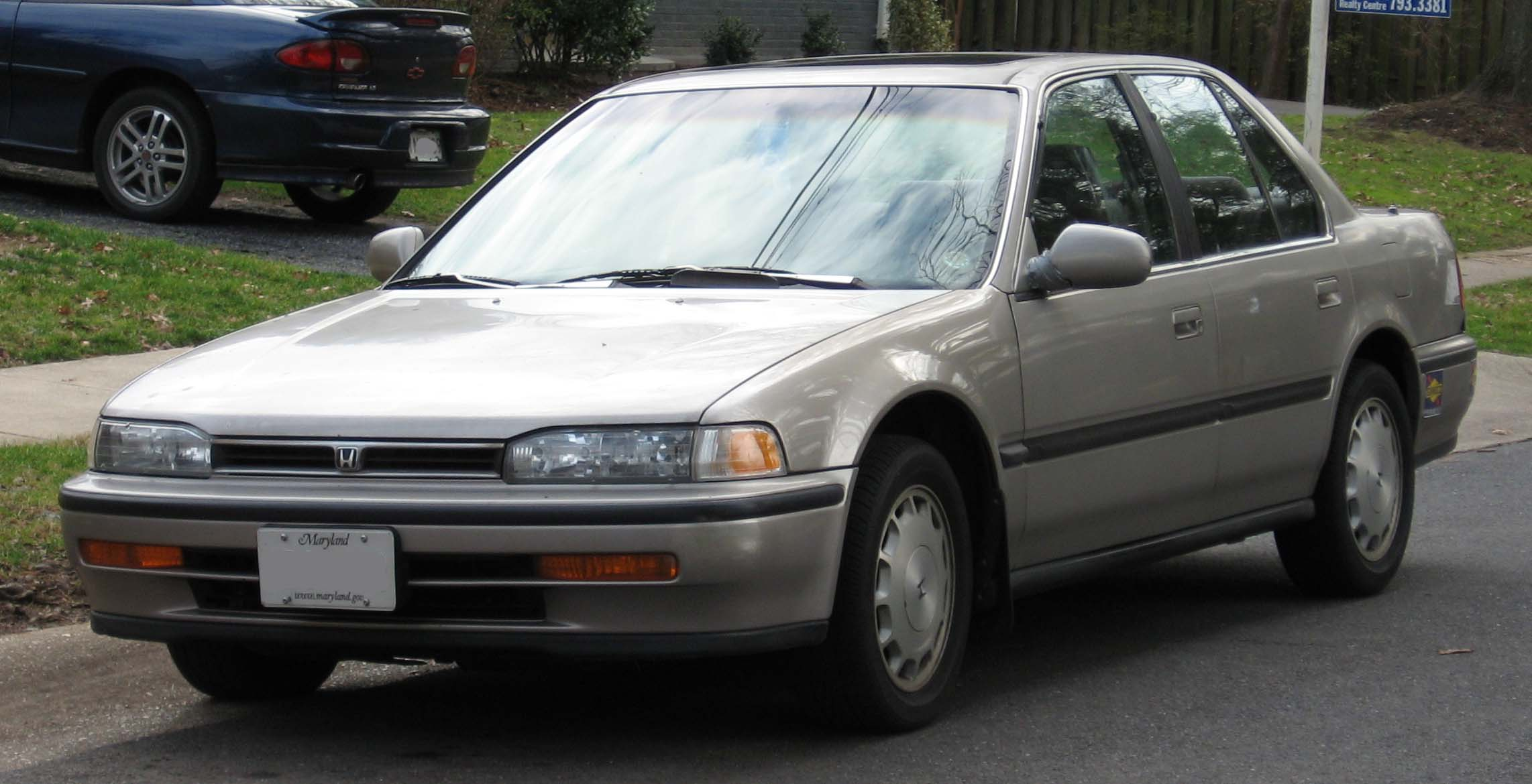 1990-1993 Honda Accord photographed in USA.